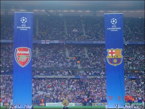 photo of team banners